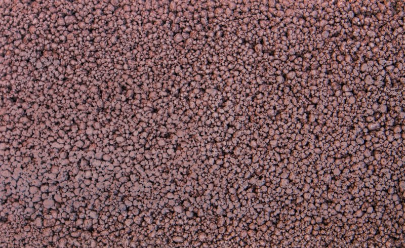 ceramsite structure - balls made with cement milk